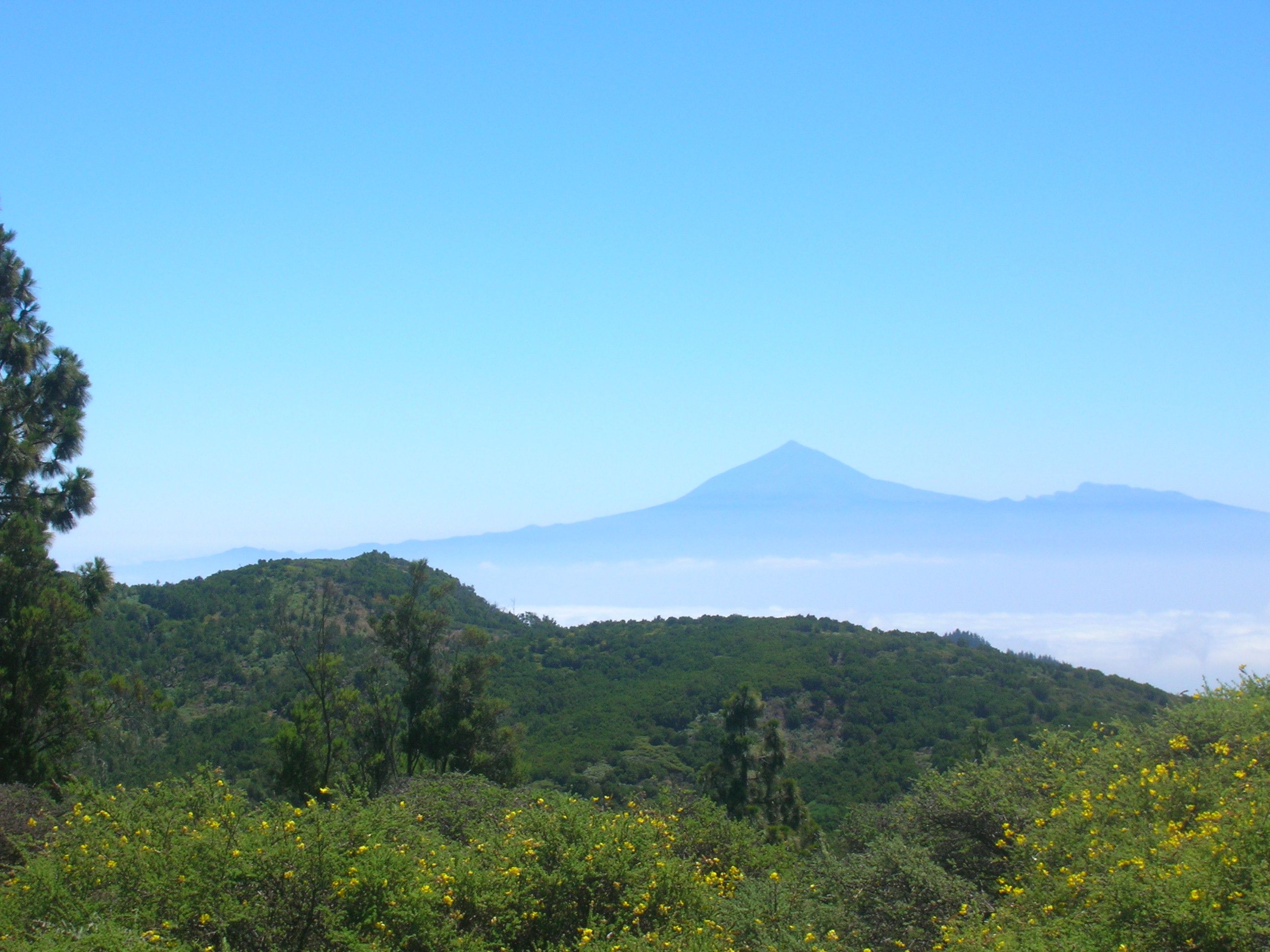 View of Teide from La Gomera